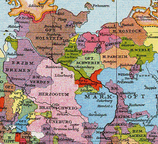 Map of the County of Dannenberg and surrounding area circa 1250.